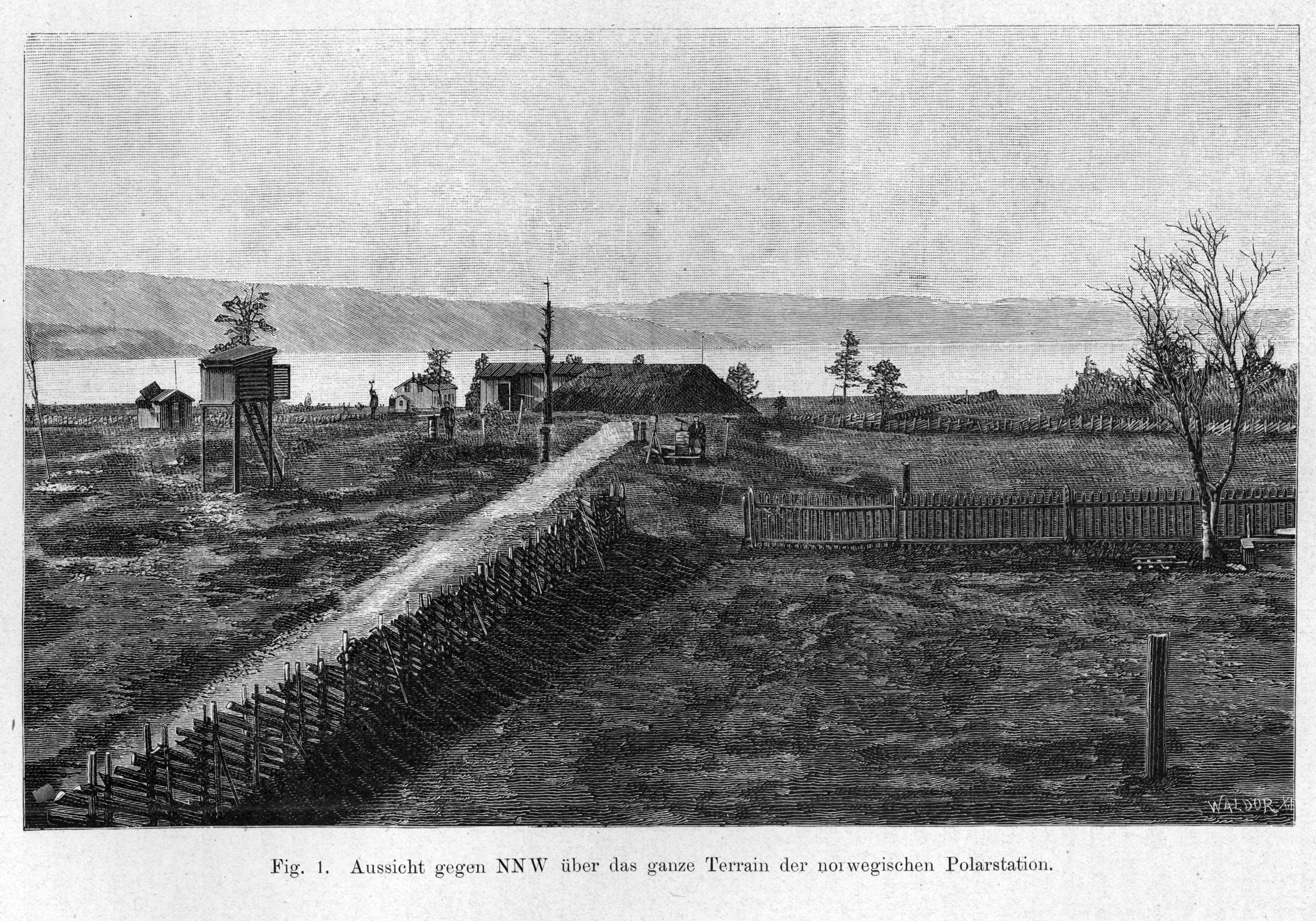 Plates/Figures from the publications of the first IPY (International Polar Year) 1887/88